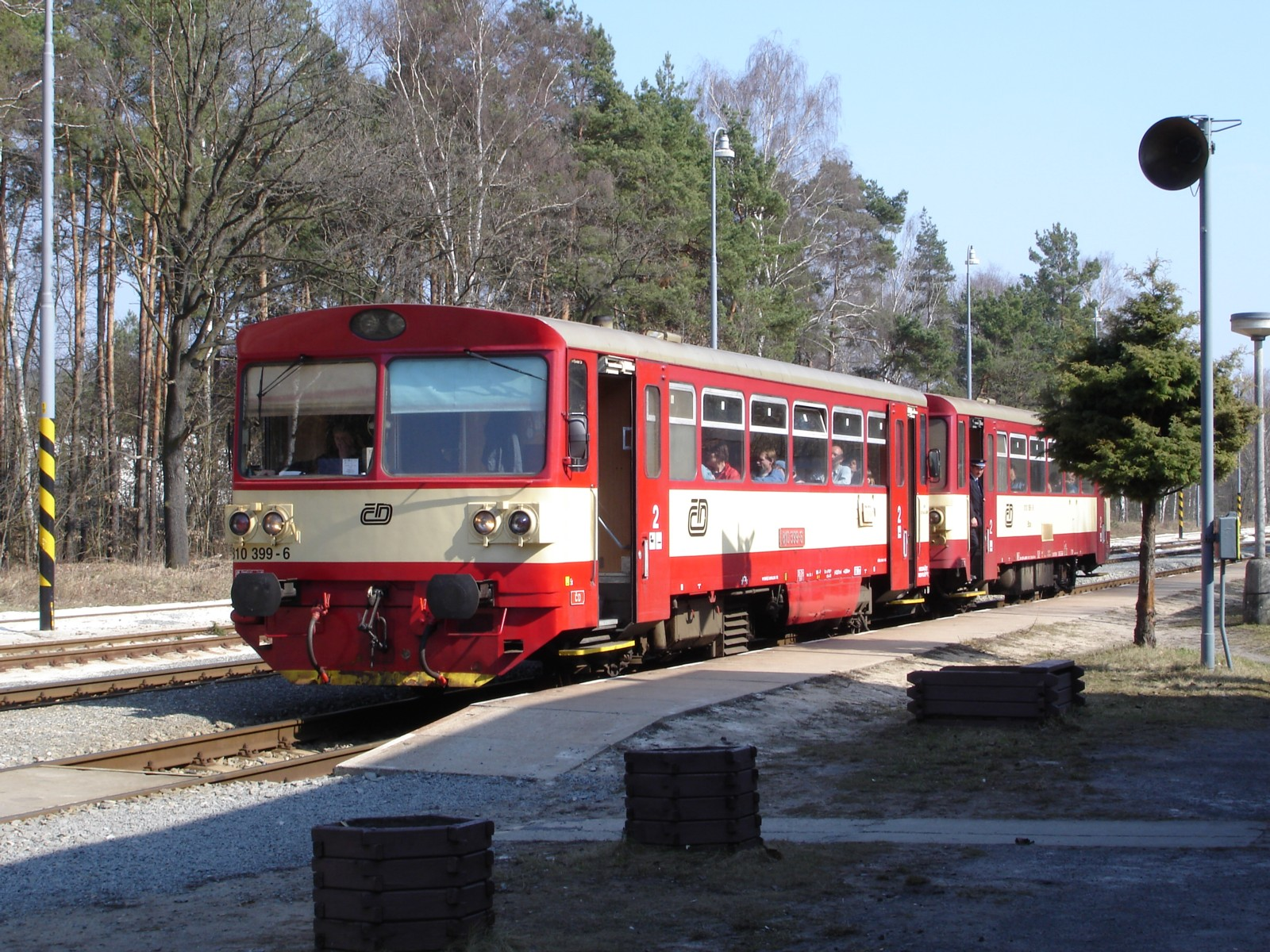 Diesel multiple unit ČD 810 in station Jestřebí, Czech Republic